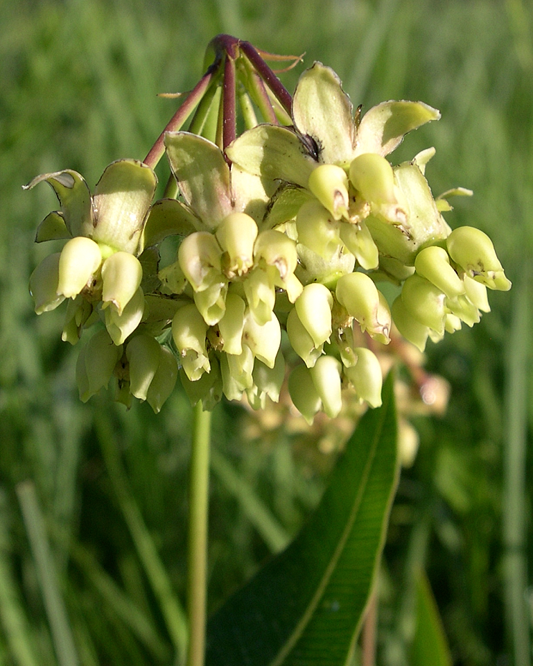 Asclepias meadii in Illinois, USA